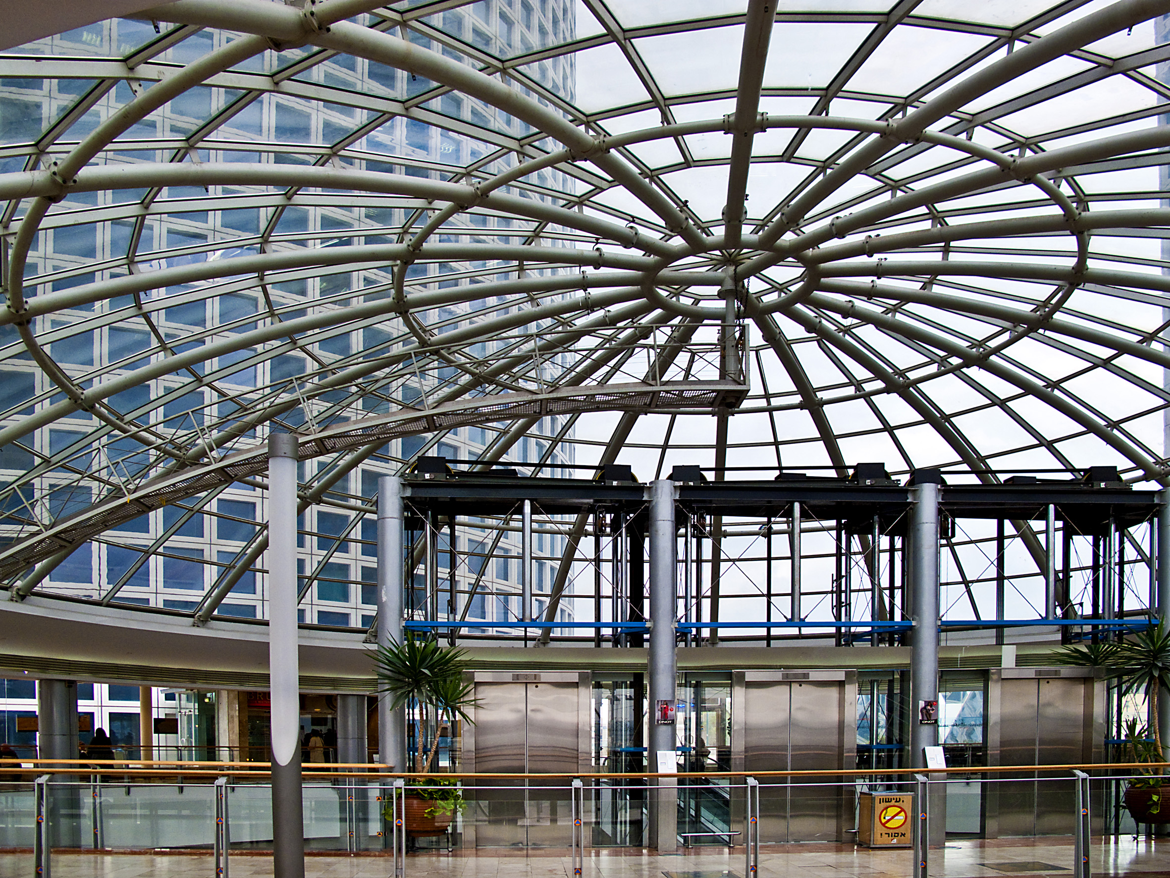 Azrieli Center contains 3 towers - square, curcular and triangle